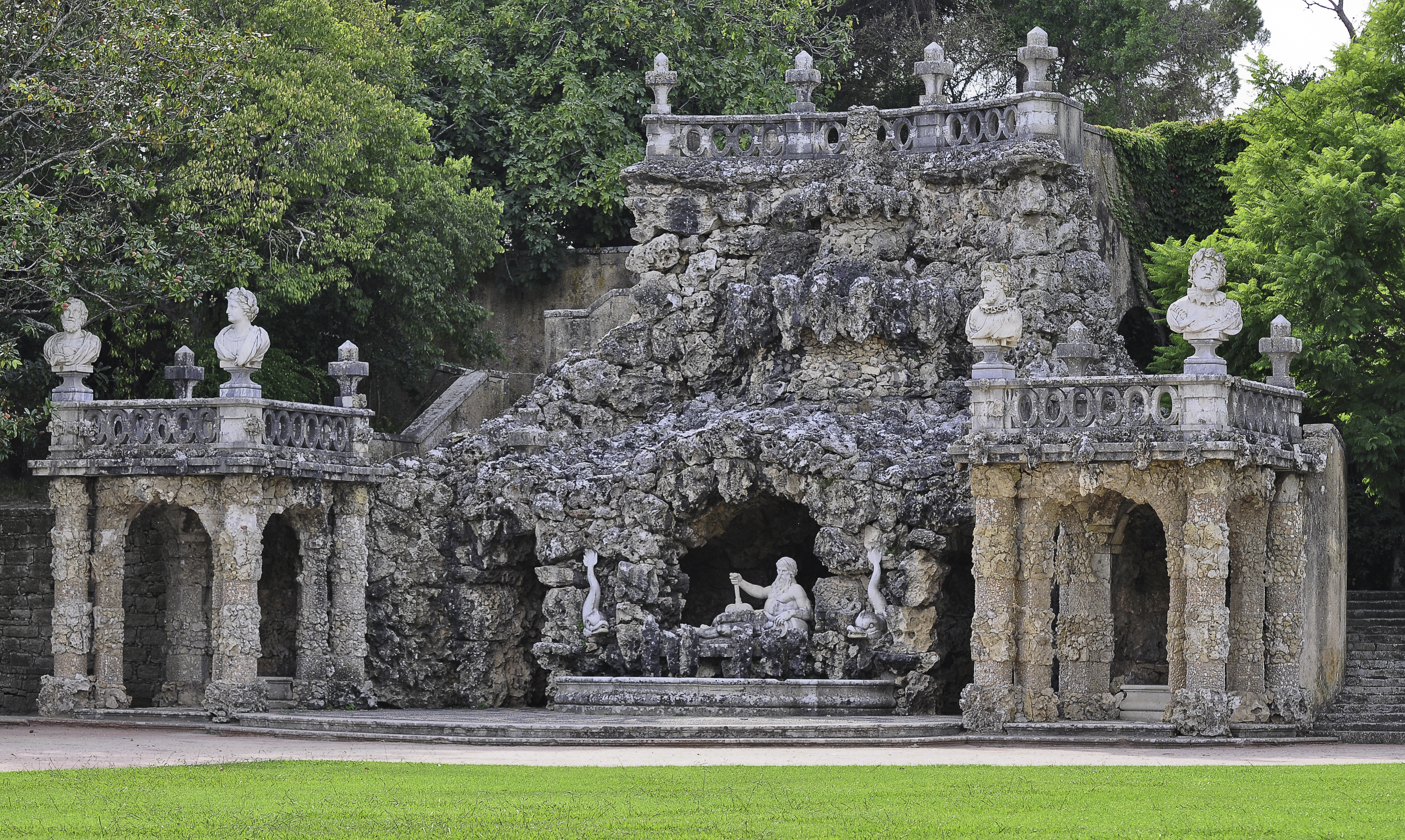 This file was uploaded for Wiki Loves Monuments in Portugal with the unique identifier 70640.